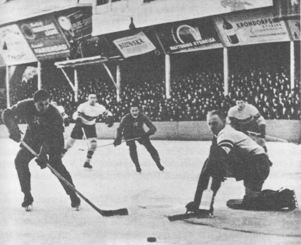 Hockey games Czechoslovakia : Germany 3 : 0